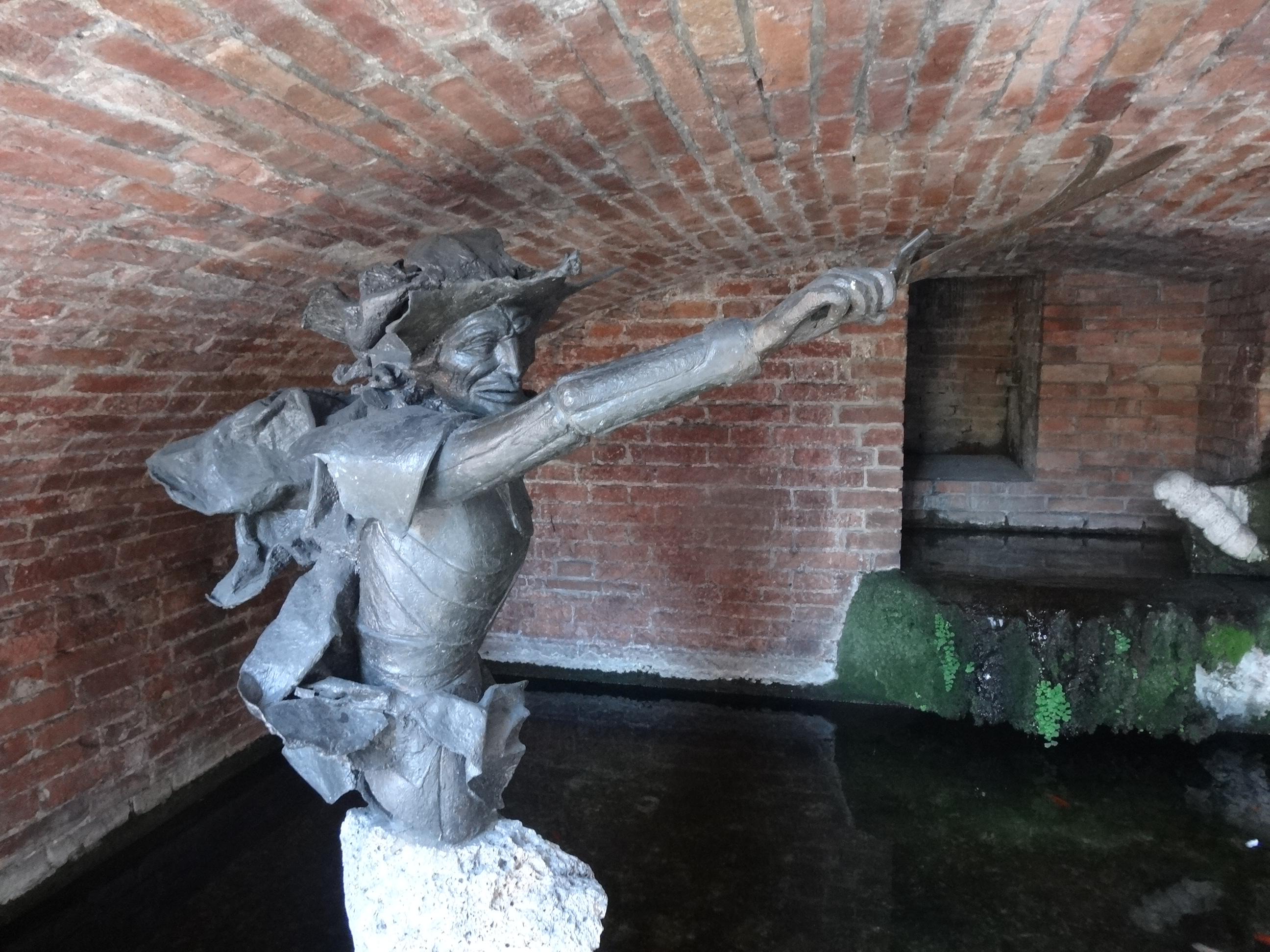 Sculpture of Barbicone, at the Fonte di San Francesco (Siena). Located under the Via dei Rossi, at the junction with Via del Comune.